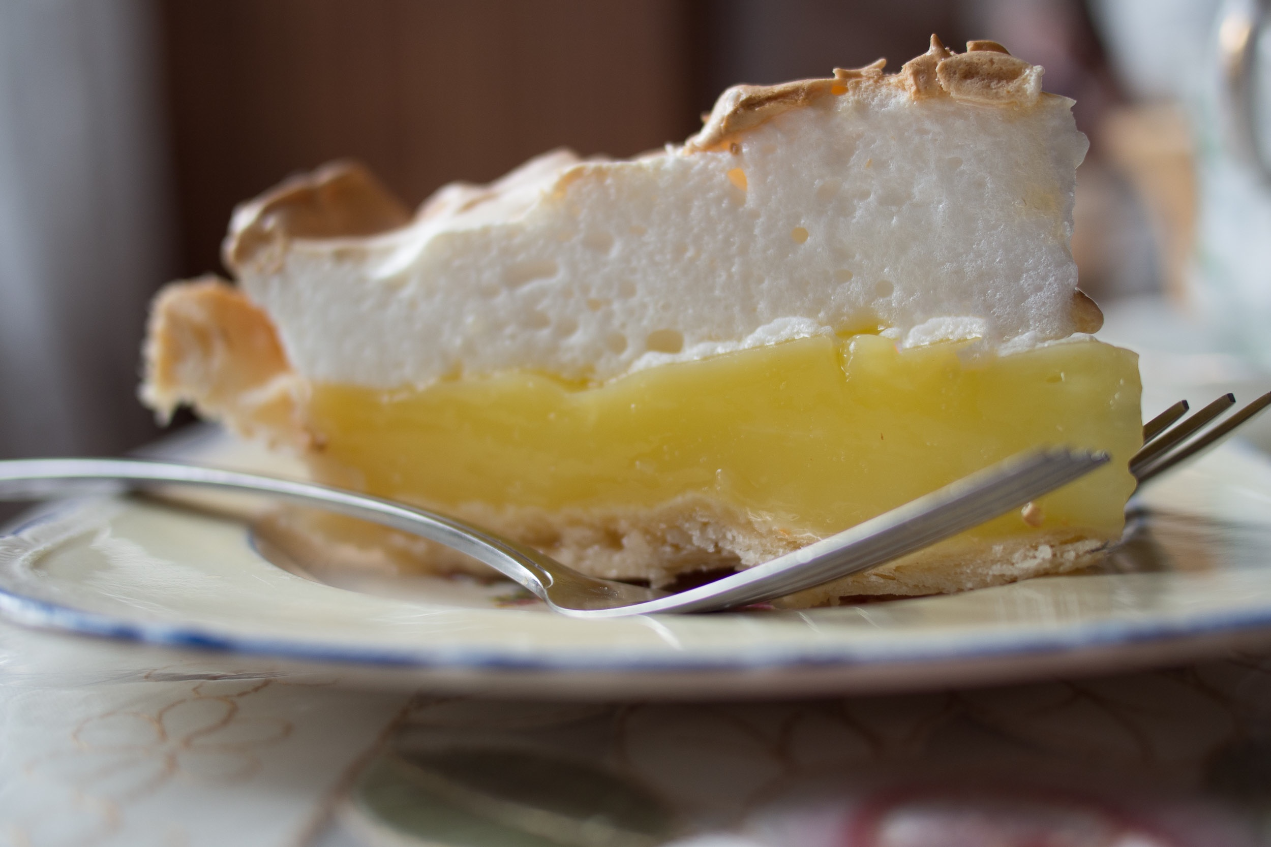 Mifflin's Tea Room, Bonavisata, Newfoundland